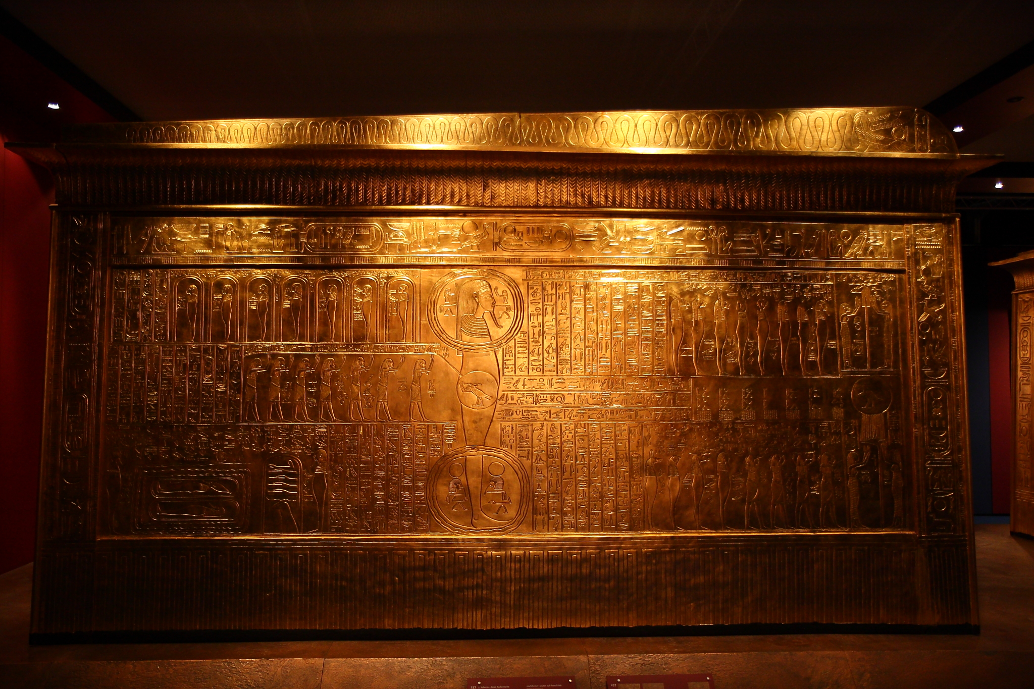 A view of a replica of Tutankhamun's gilded shrines in Frankfurt, Germany.